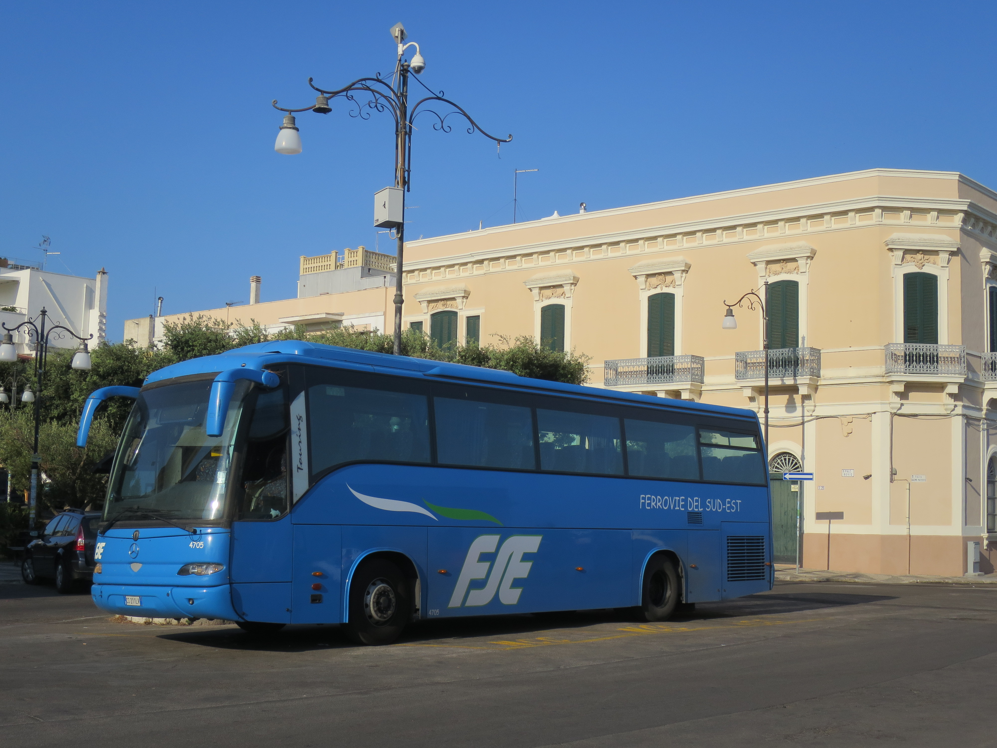 Bus of Ferrovie del Sud Est in front of Gallipoli railway station